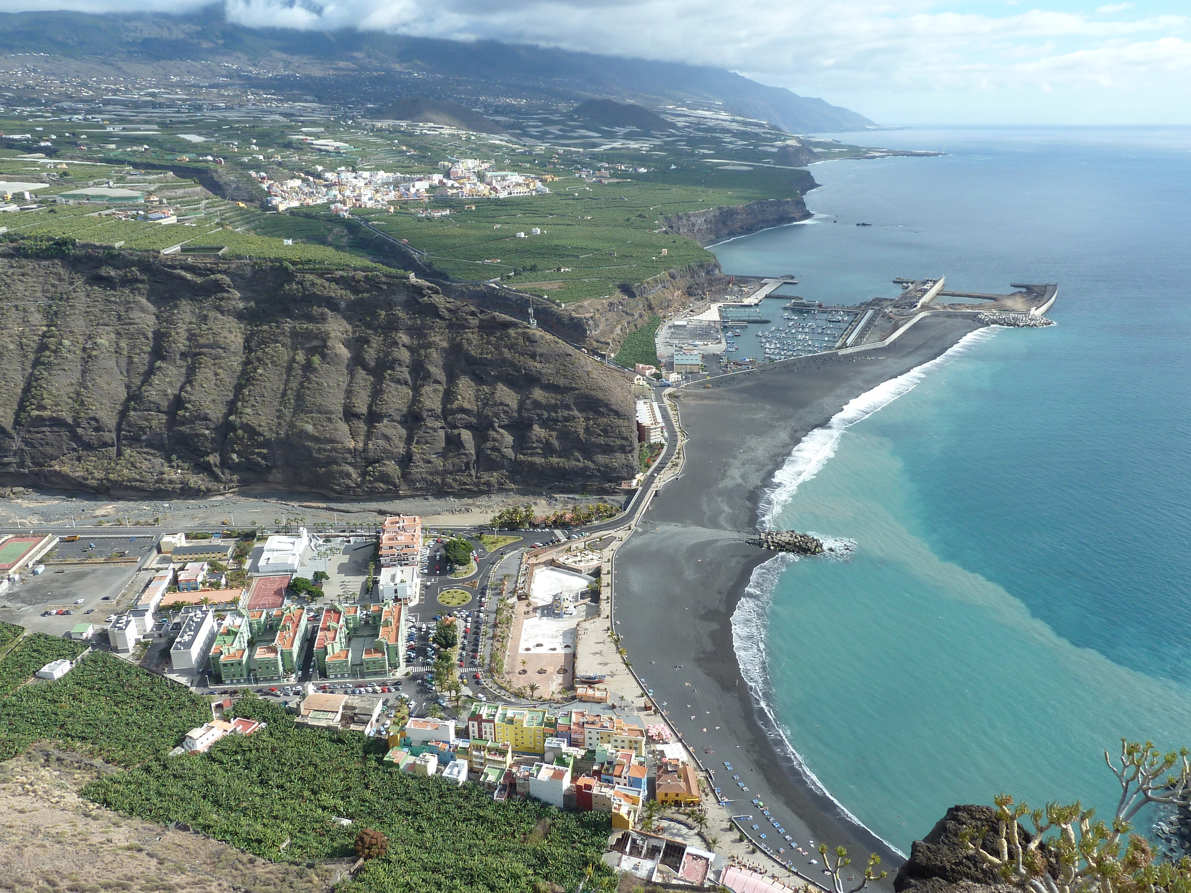 View of part of the beach of Tazacorte and the puerto de Tazacorte near Tazacorte on La Palma